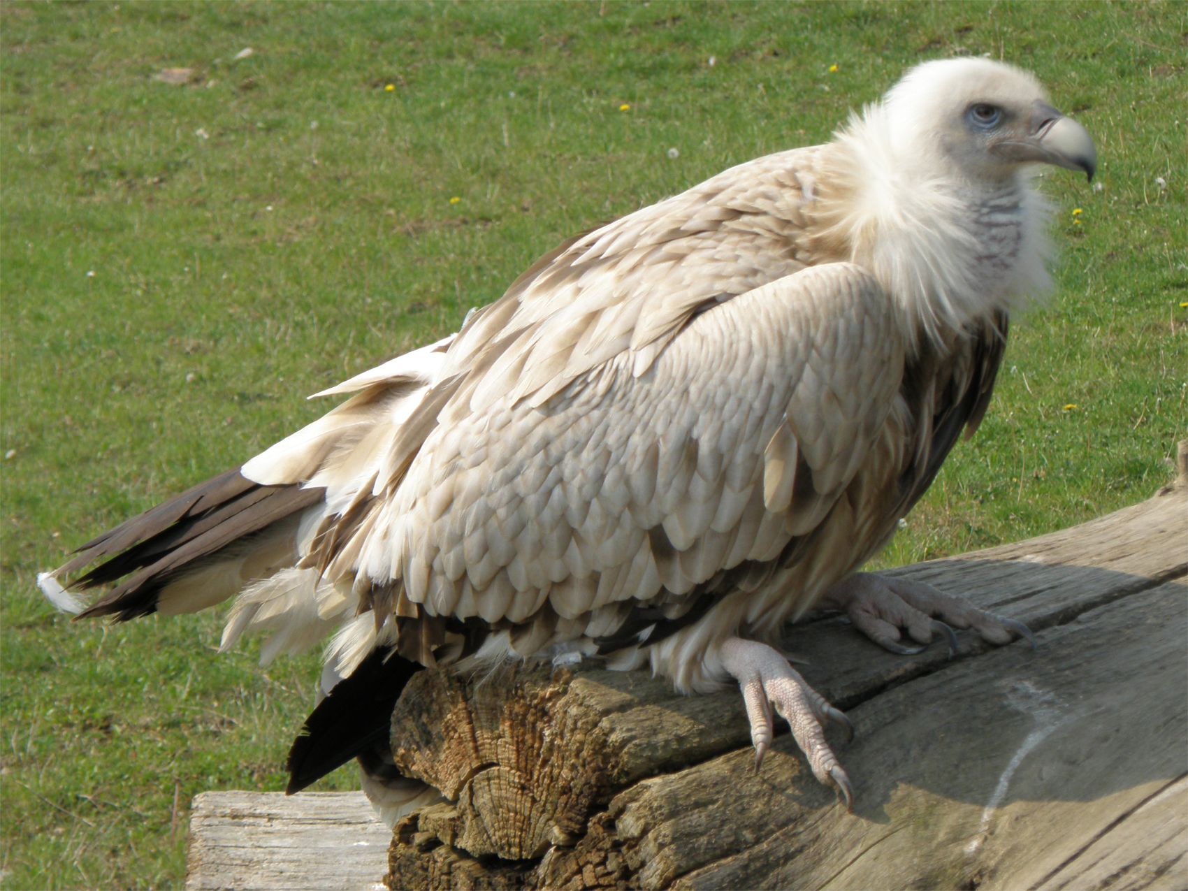 Gyps himalayensis, Himalayan Griffon, ZOO Ústí nad Labem, 5th january 2009